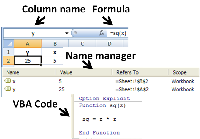 Use of user-defined function in Microsoft Excel. All proprietary Microsoft art work has been cropped to leave a generic spreadsheet